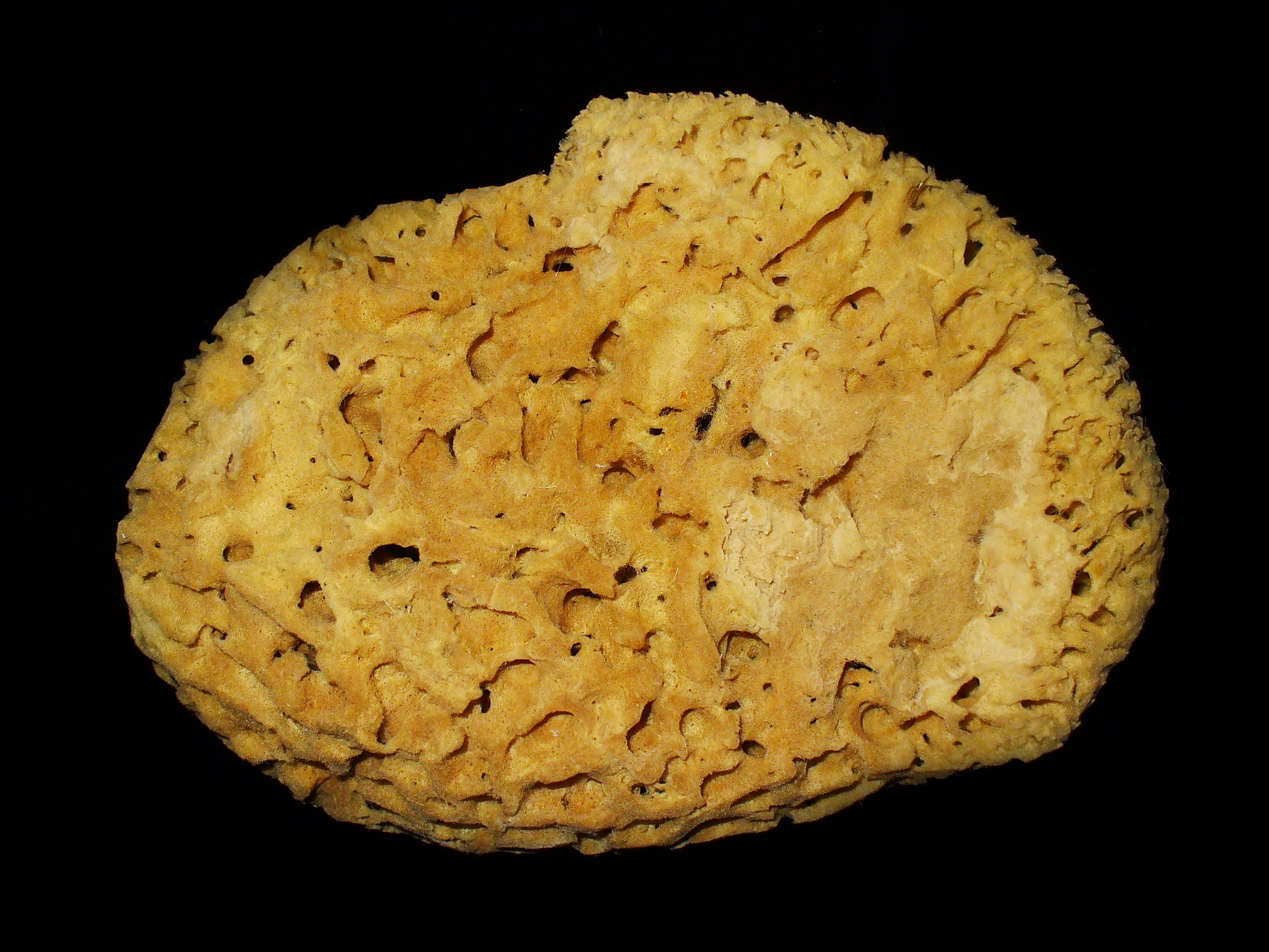 Spongia officinalis, Spongiidae, Greek bathing sponge; Staatliches Museum für Naturkunde Karlsruhe, Germany. The roasted sponge is used in homeopathy as remedy: Spongia (Spong.)